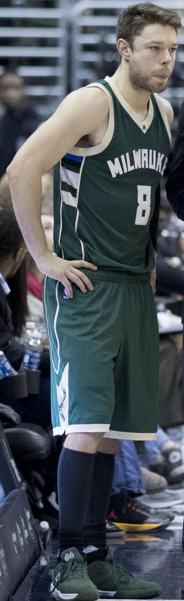 Matthew Dellavedova during a Milwaukee Bucks game versus the Washington Wizards in 2016.